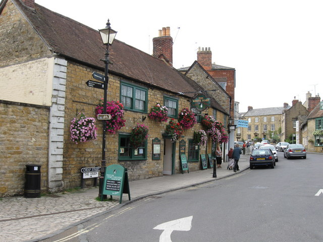 The White Hart Pub. Sherborne This colourful pub stands at the point where Cheap Street meets The Green